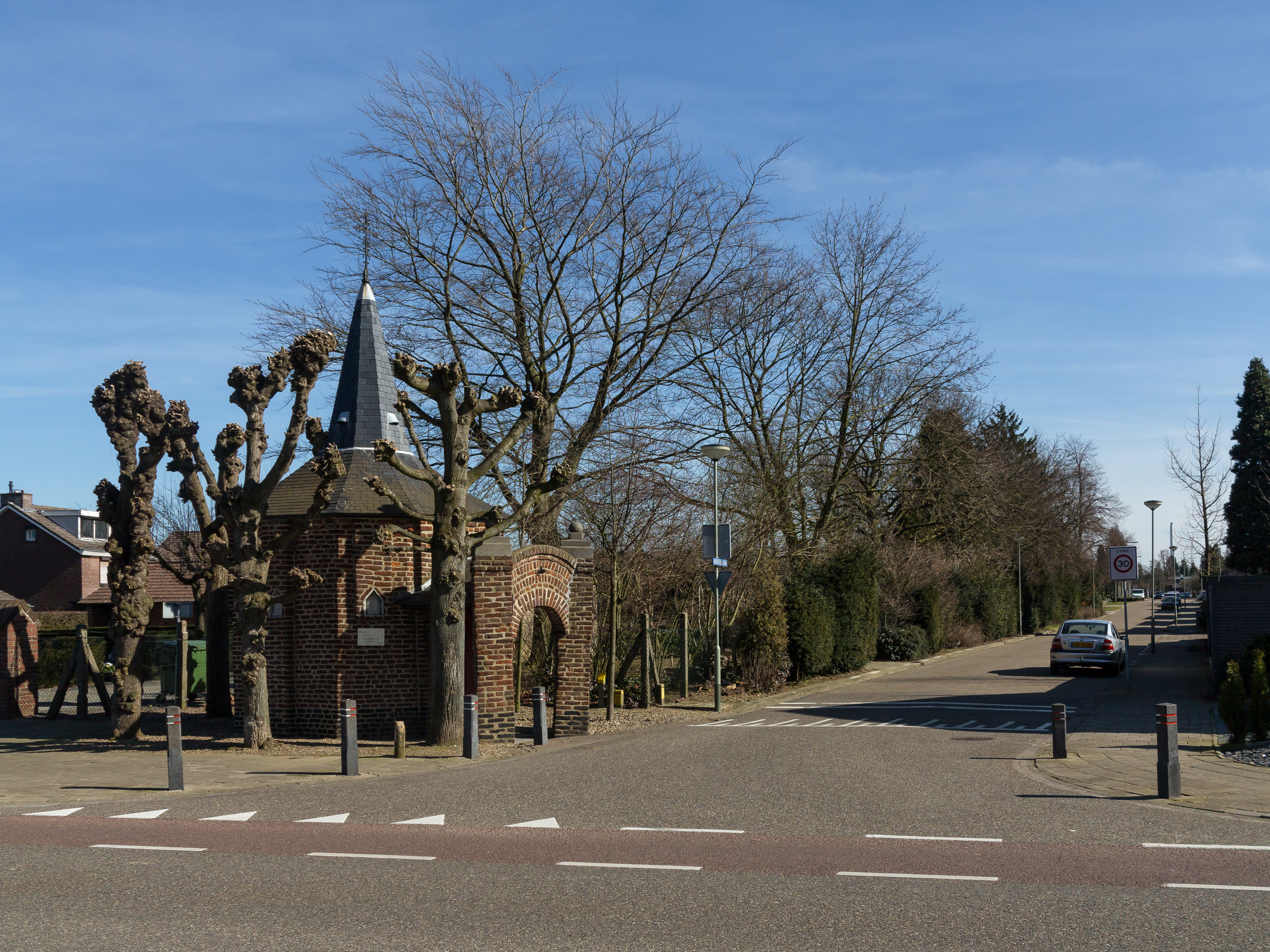 Urmond, chapel: de Bokkenrijderskapel